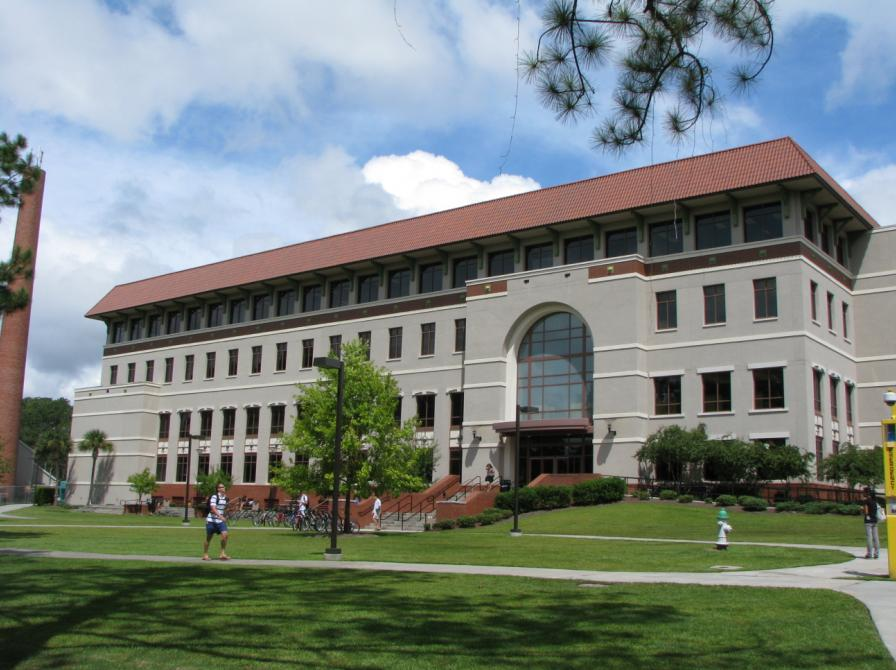 Odum Libray at Valdosta State University